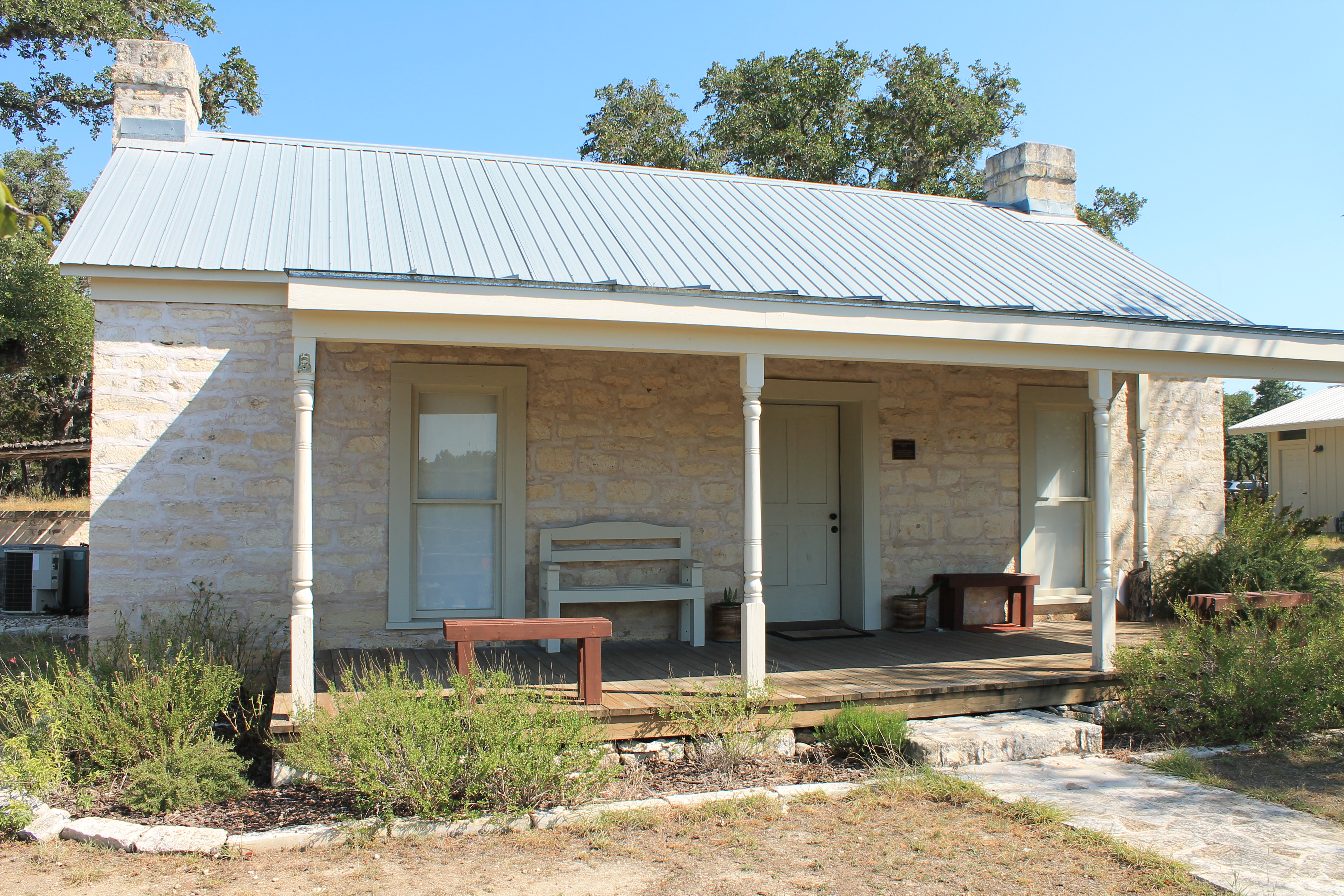 Winters-Wimberly House